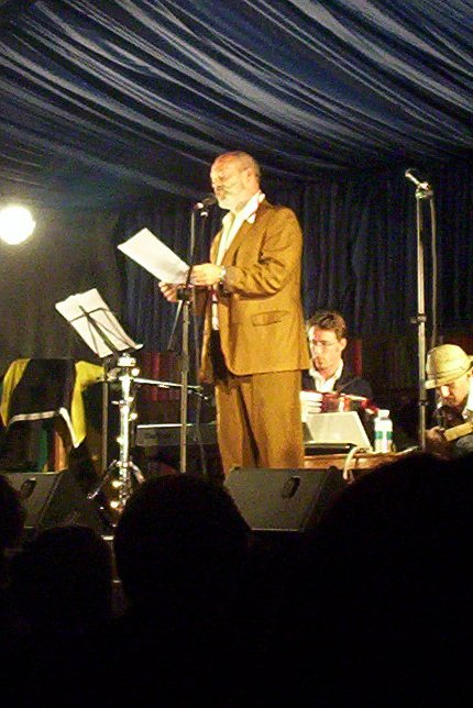 Mainly uploading this to reassure myself that I didn't dream it, that night. An existential police procedural monologue from Keith Allen, punctuated with bad reggae he'd written.